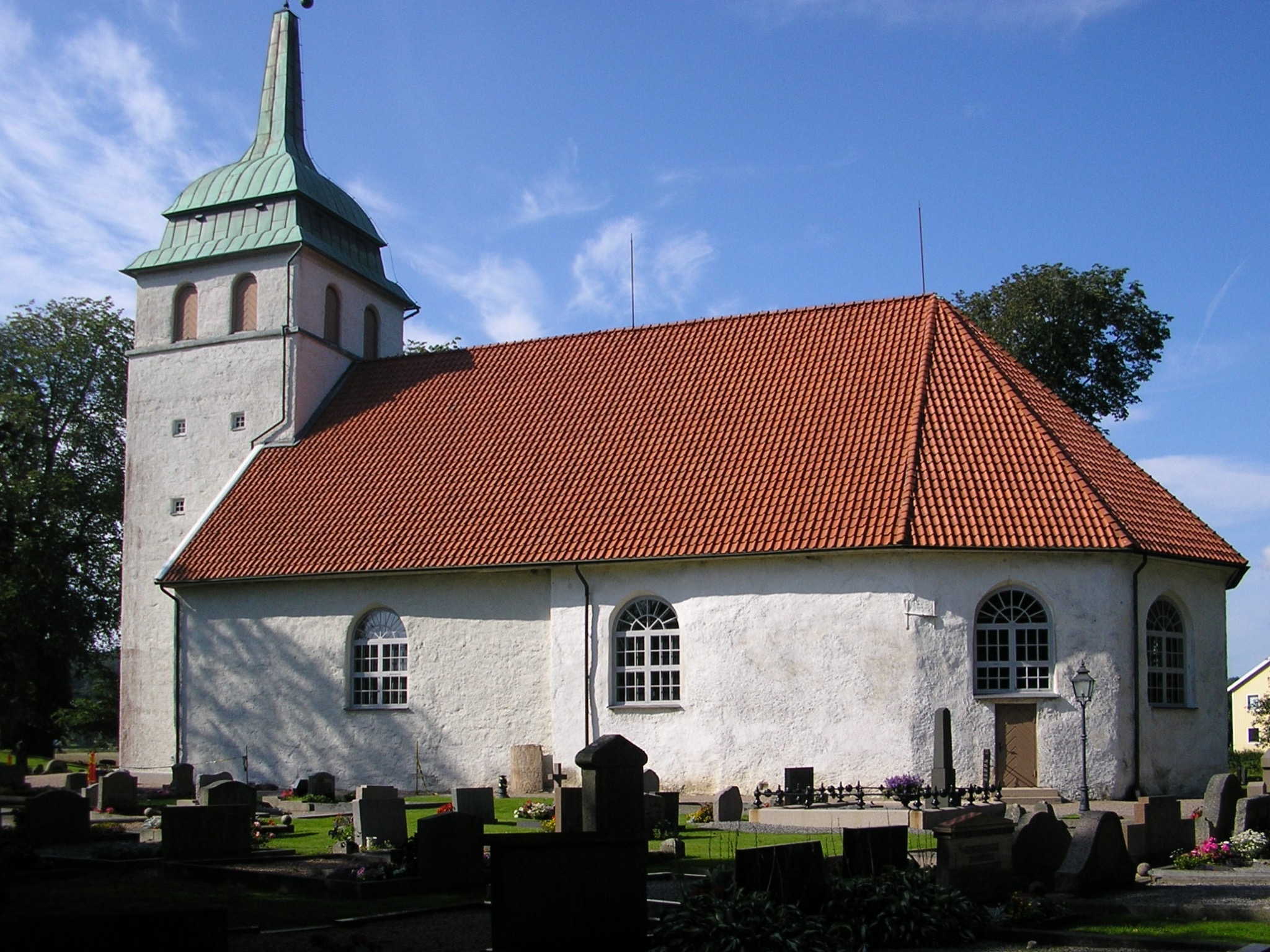 Bro kyrka, Bohuslän, the church in Brodalen, Lysekils kommun. Seen from the south.